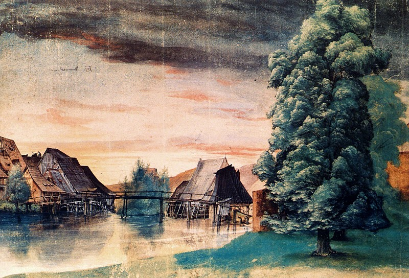 Watercolour Albrecht Dürer